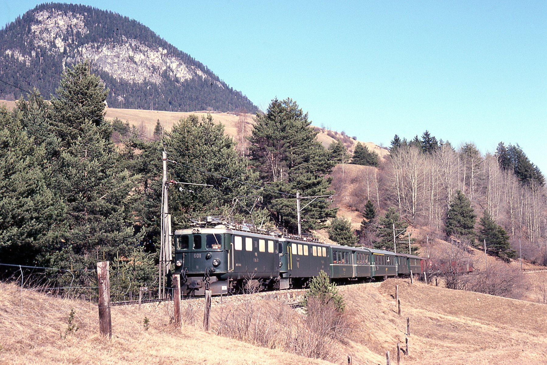 RhB Ge 4/4 I No. 601 in close to original condition (front doors are already removed) and with green paint.